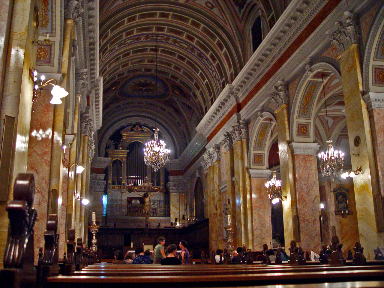 Church of St Saviour, Jerusalem, Israel